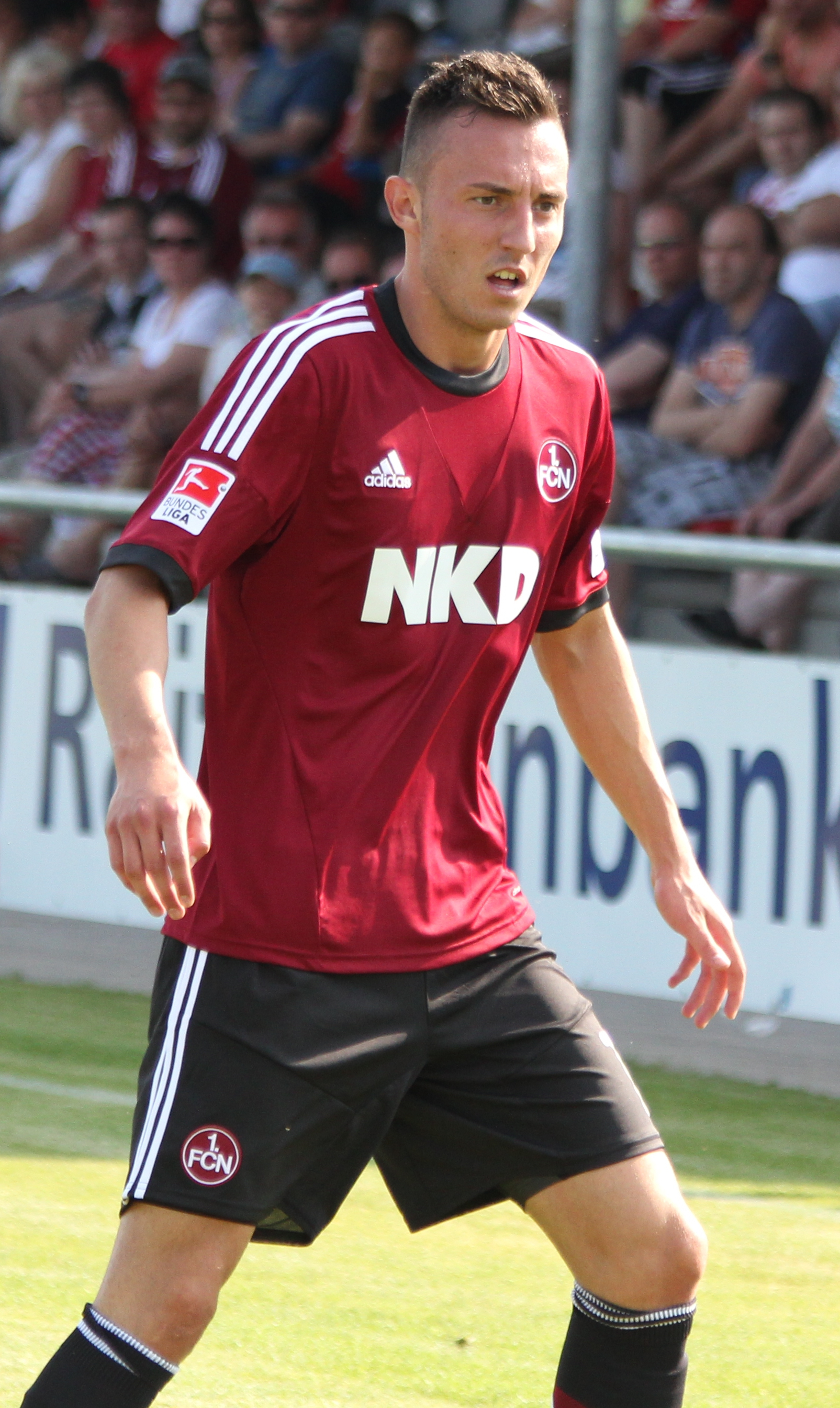 Josip Drmić, football player for German side 1. FC Nürnberg, 2013/14 season, in a preparation match against SV Seligenporten